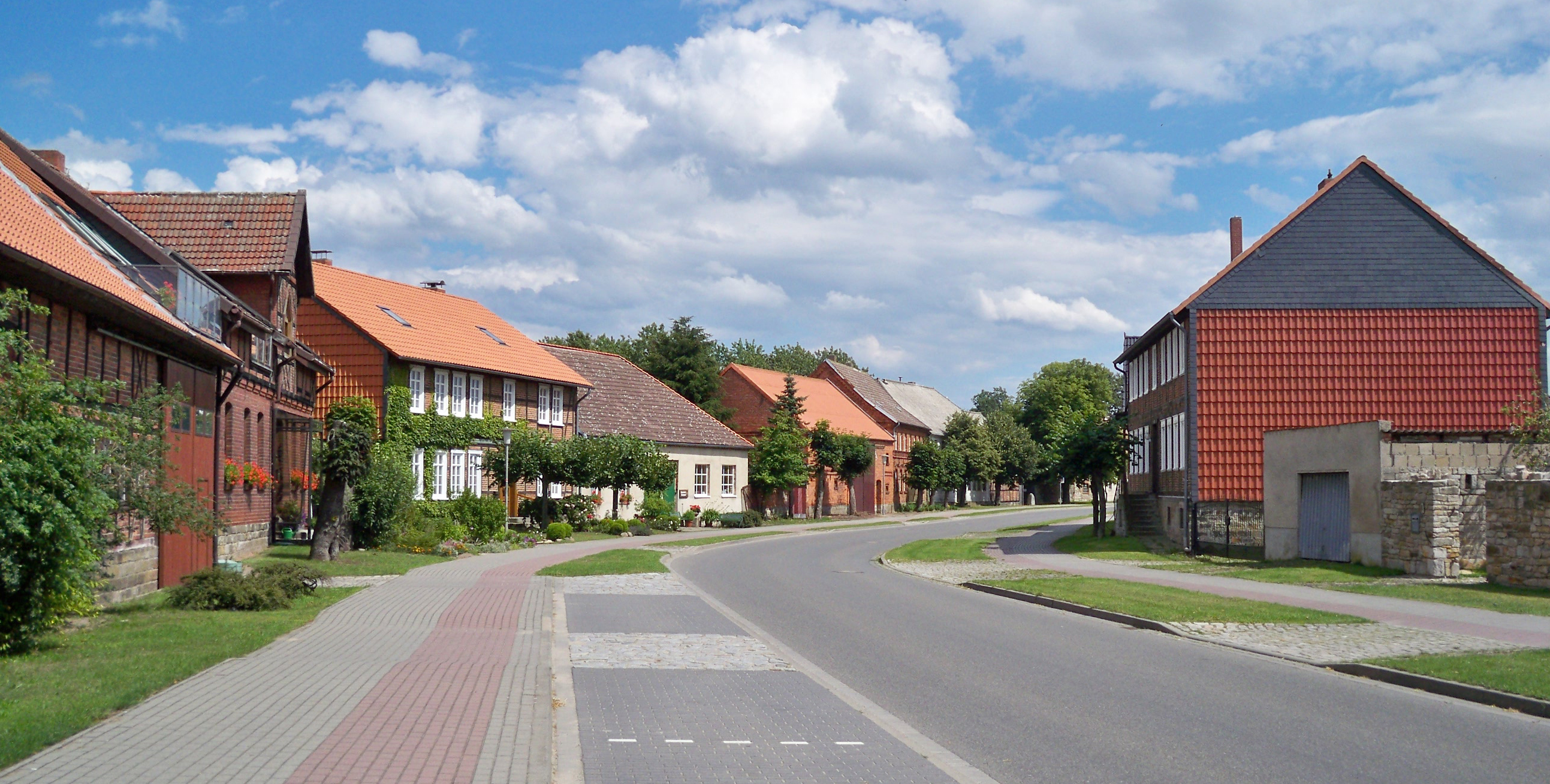 Breitenrode, Saxony-Anhalt, Main Street, viewing eastwards